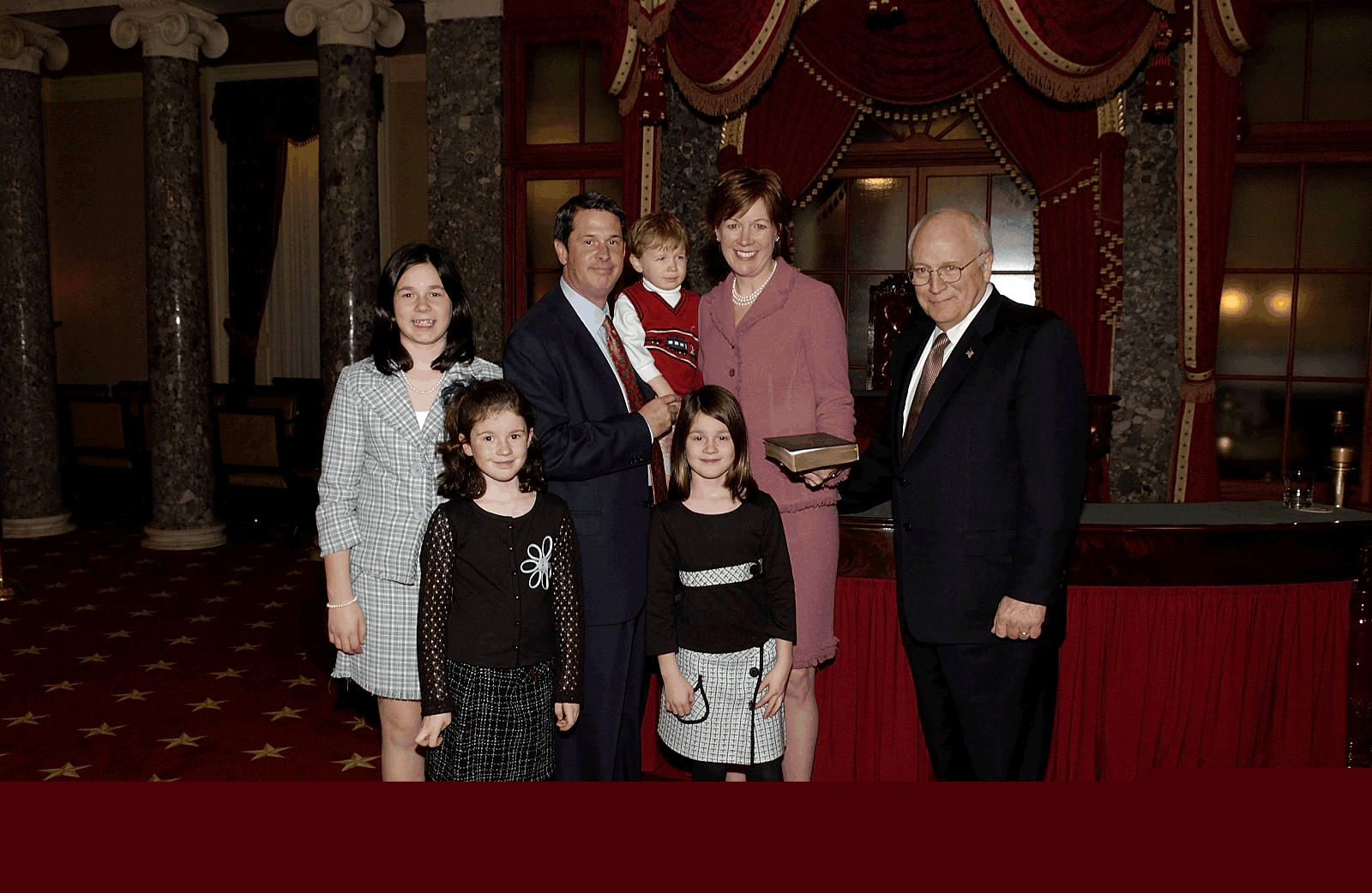 The Vitter Family Meets with Vice President Cheney following the Swearing In Ceremony